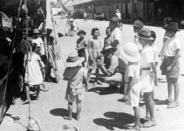 Major (Maj) H. W. S. (Harry) Jackson, Australian Government representative of the combined Australian-British Reward Mission, filming some children in the town. In 1946 the Mission led by Maj. Jackson who was joined by Maj. Dyce, representing the British Army, and two journalists from the ABC, Colin Simpson and William McFarlane, travelled to North Borneo to investigate, report and reward the assistance provided to Australian and British prisoners of war (POWs) by local natives. In 1942, 1800 Australian and 600 British POWs were sent to Sandakan from Singapore and Java. Those prisoners still alive in the Sandakan POW Camp in January 1945 were forced to help evacuate the Japanese Imperial Army from Sandakan to Ranau in three brutal death marches where the men were forced to march the 150 miles to Ranau. Any POWs still alive after the last march, were killed. Only six prisoners, who had all escaped during the death marches, were still alive at the end of the war. POWs had made pledges to the local people who had assisted them and the Australian Government decided that these obligations should be investigated and rewarded. The Mission group retraced the route taken by the prisoners of war and investigated the claims in order to recommend rewards to those natives. In 1950 the Mission rewarded those helpers.